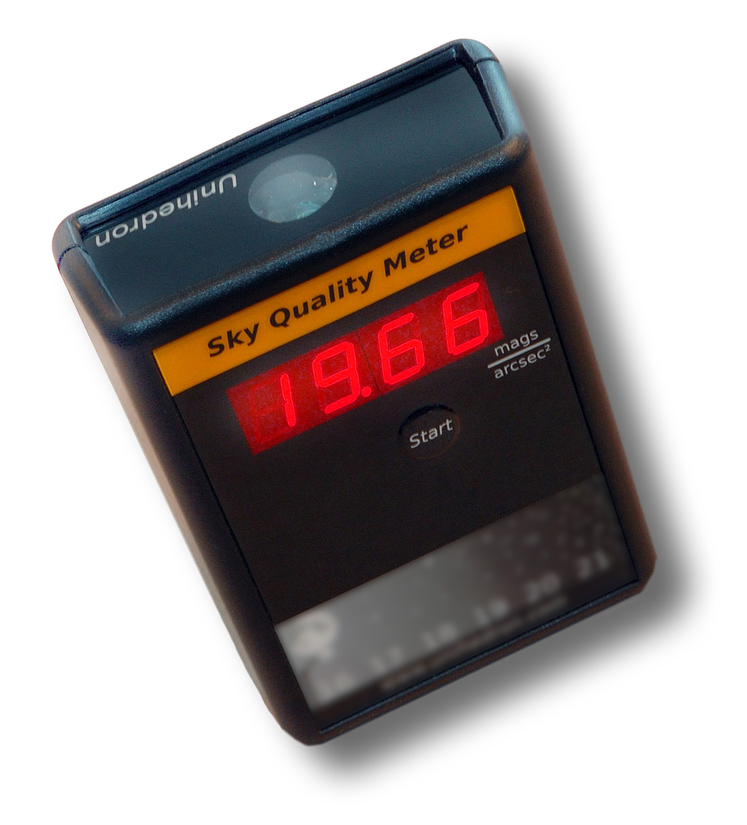 SkyQualityMeterQM-L